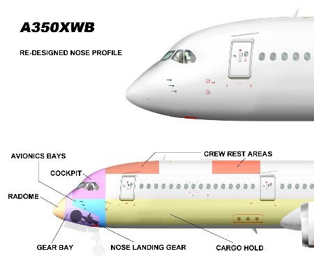 A350 XWB Diagram